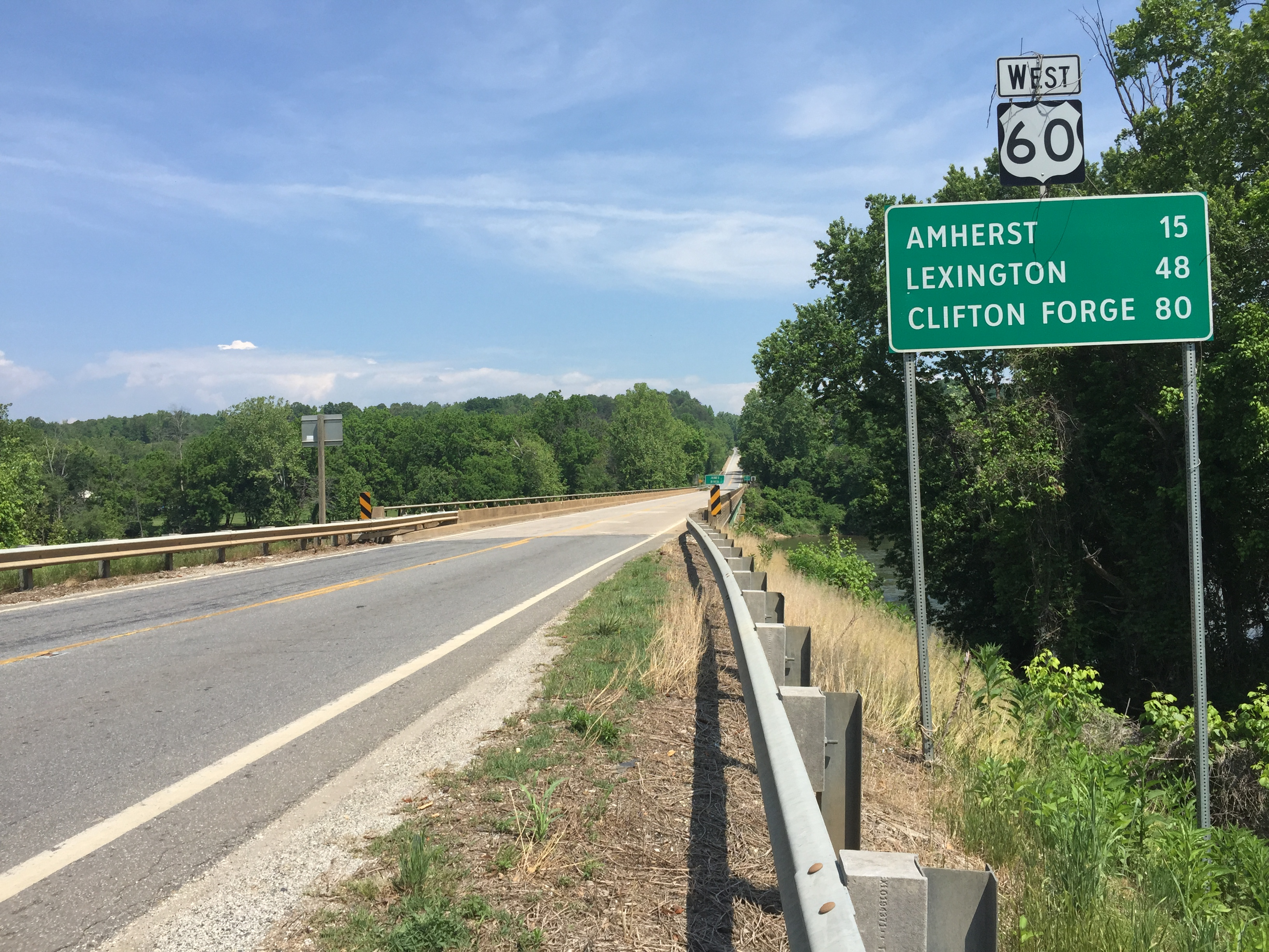 View west along the W James Anderson Highway (U.S. Route 60) just before crossing the Gladstone Bridge over the James River from Appomattox County to Nelson County, Virginia